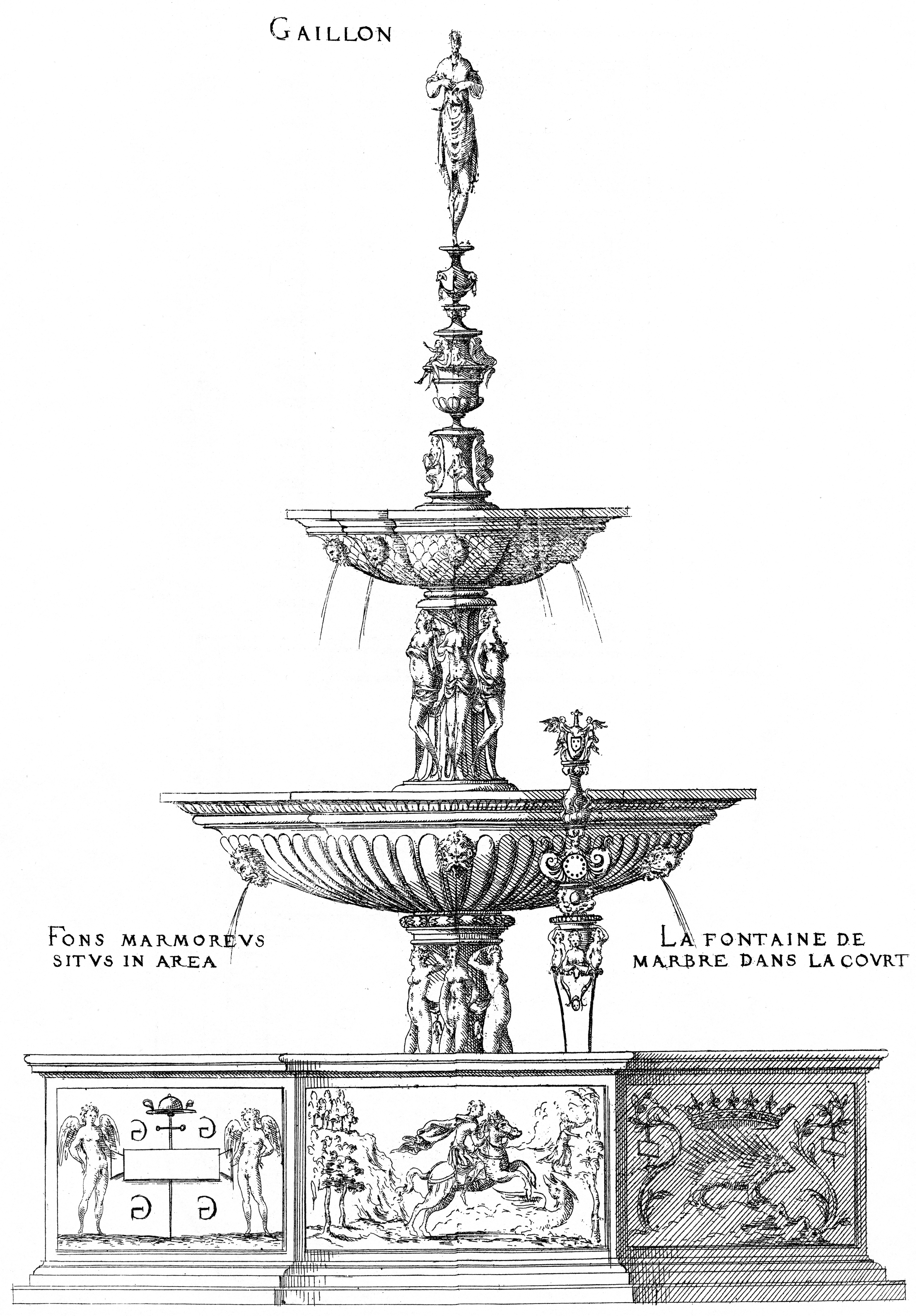 Engraving from Le premier volume des plus excellents Bastiments de France by Jacques I Androuet du Cerceau. Elevation of the Marble Fountain of the Château de Gaillon